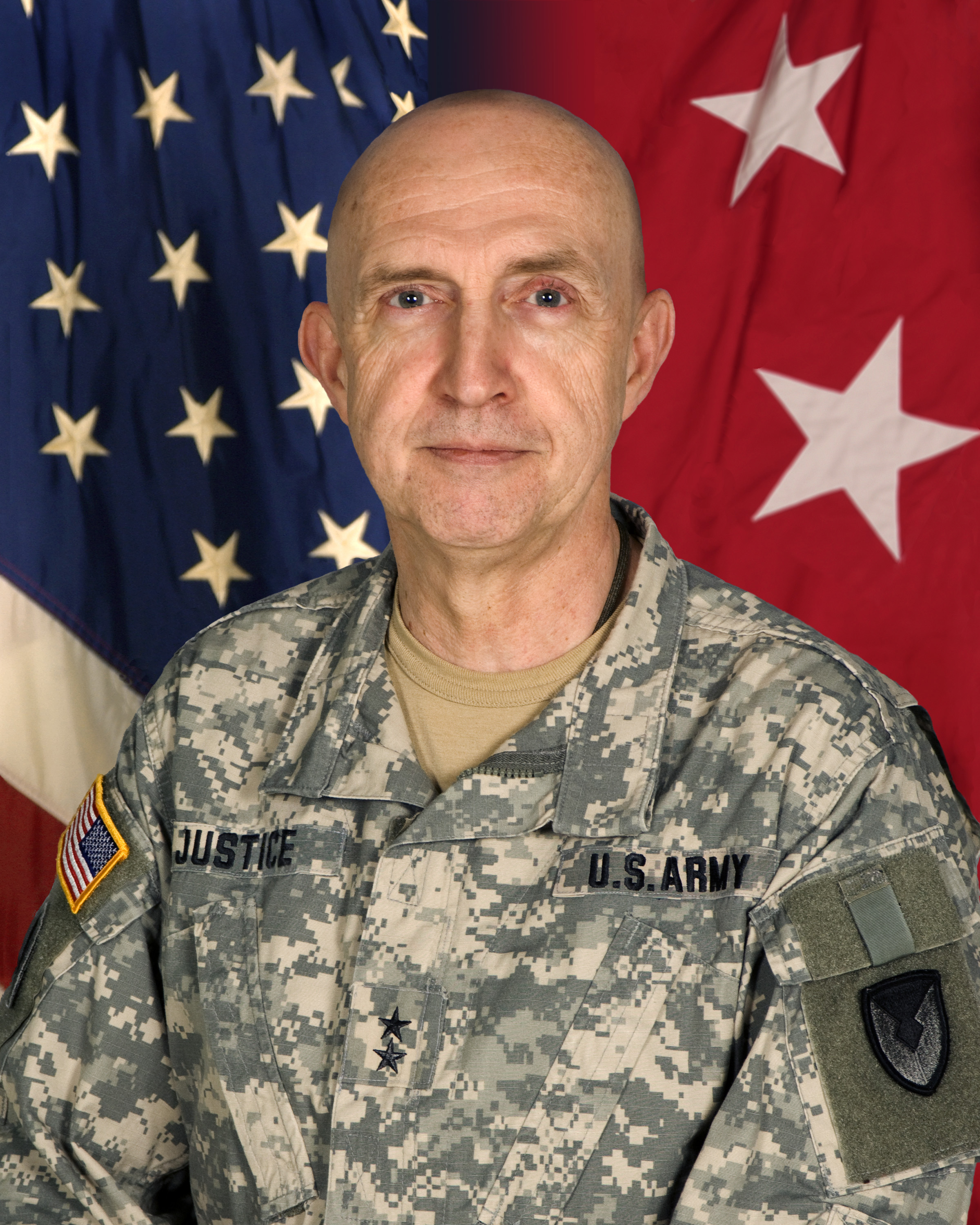 Commander, U.S. Army Research, Development and Engineering Command